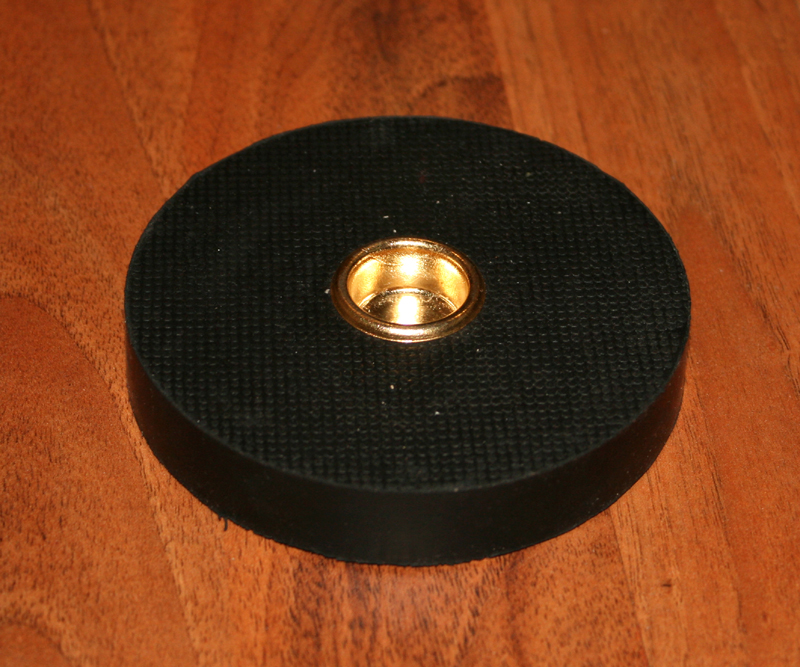 A "Black Hole" styled endpin rubber stopper, used to prevent a cello from slipping on the floor.